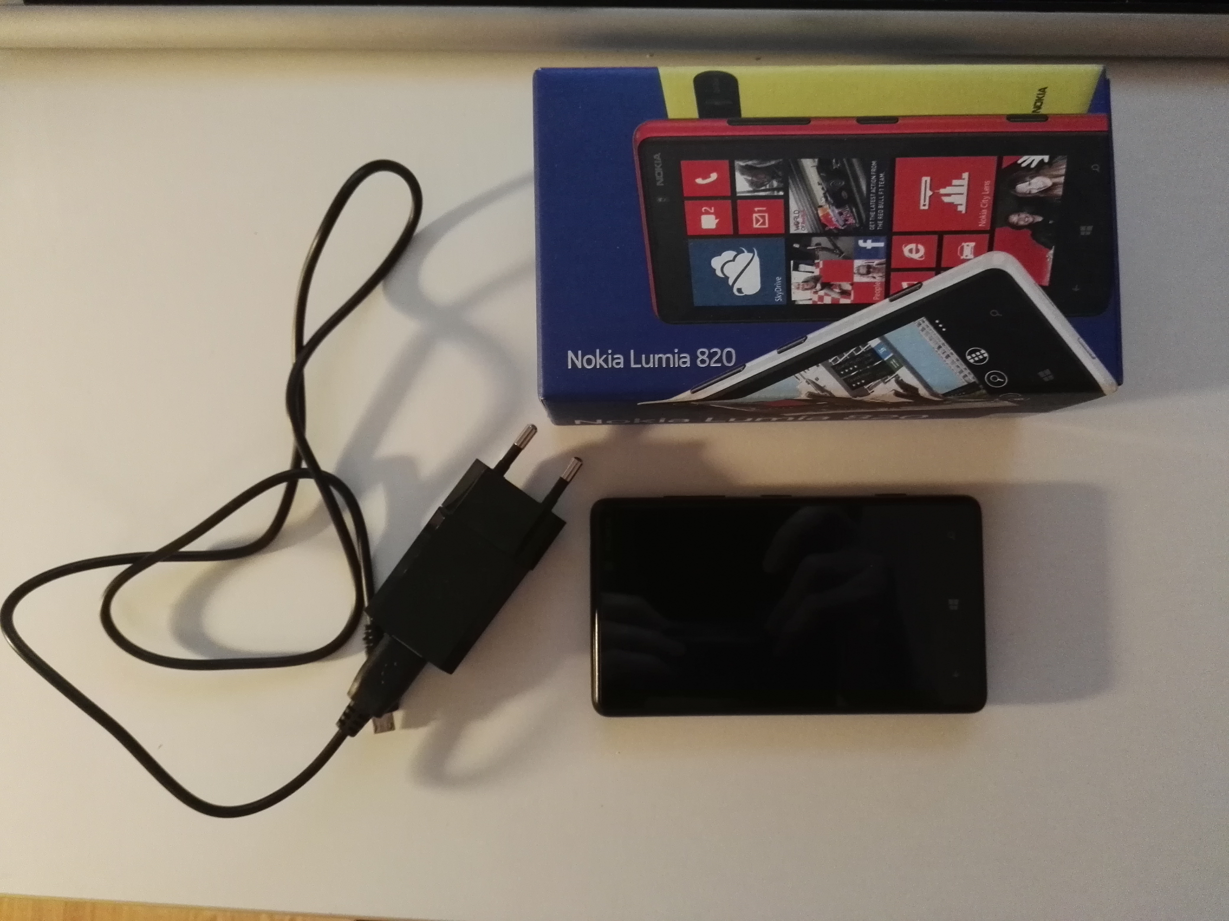 Nokia Lumia 820, recharger and box